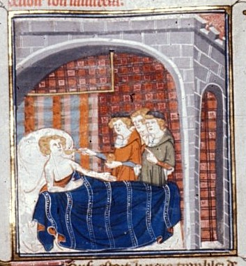 Miniature of the sick-bed of Louis le Gros, with doctors administering medicine with a spoon